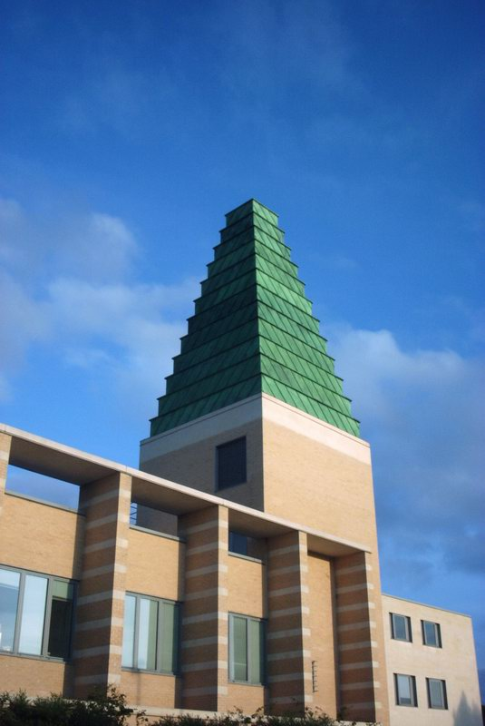 The postmodernist copper ziggurat on the Said Business School, part of the University of Oxford.